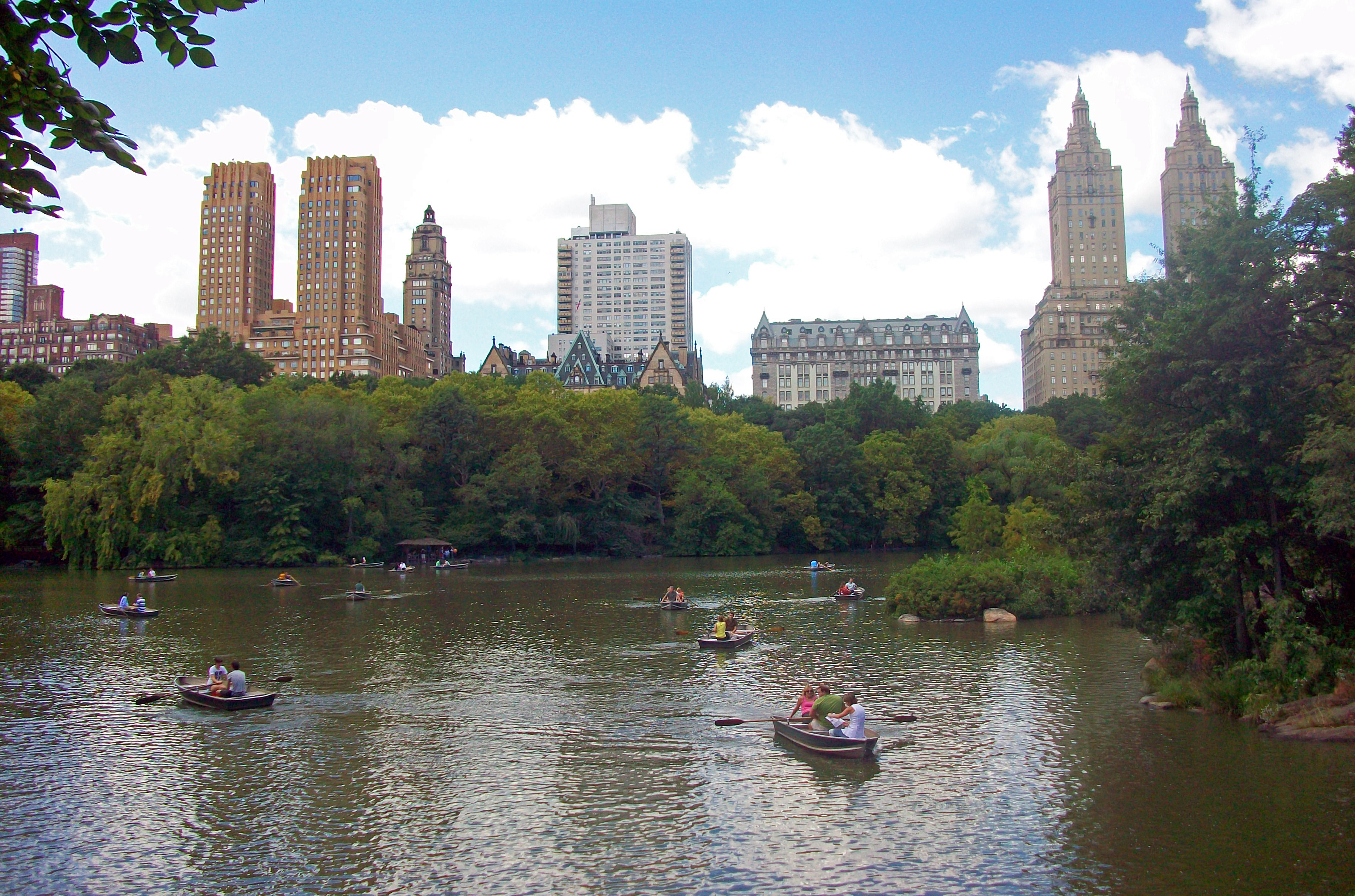 The Majestic, Dakota, Langham and San Remo, all contributing properties to the Central Park West Historic District, seen from Bow Bridge over the Lake in Central Park